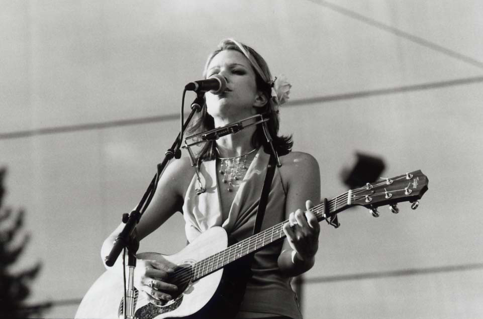 Noelle Hampton and her band performing the opening set for Bob Dylan on 7/19/03 at Harvey's Casino Outdoor Stage.